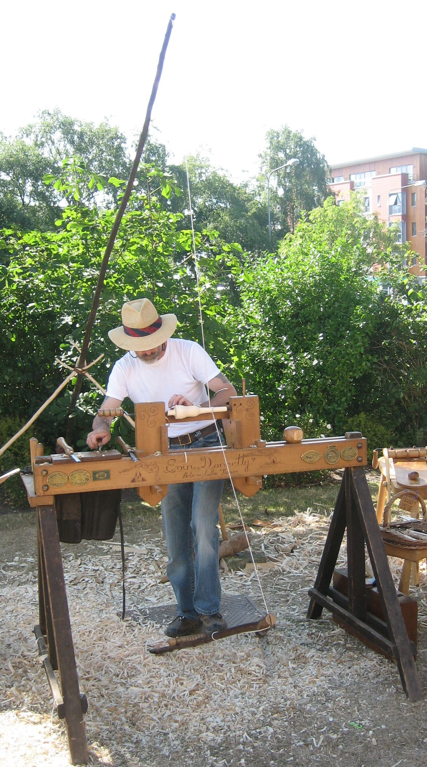 An old lathe Original can be found here